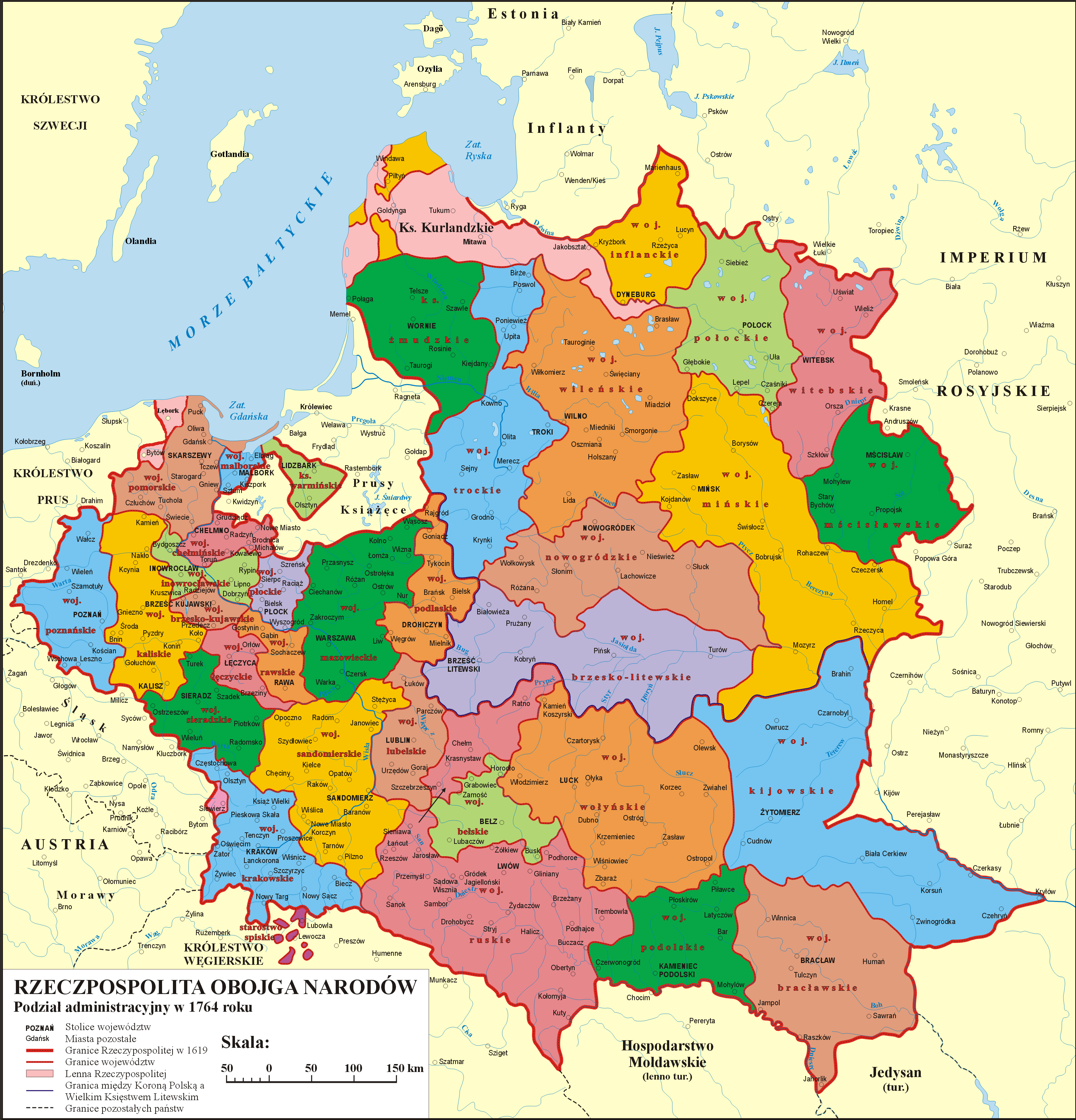 Administrative division of the Polish-Lithuanian Commonwelath in 1764